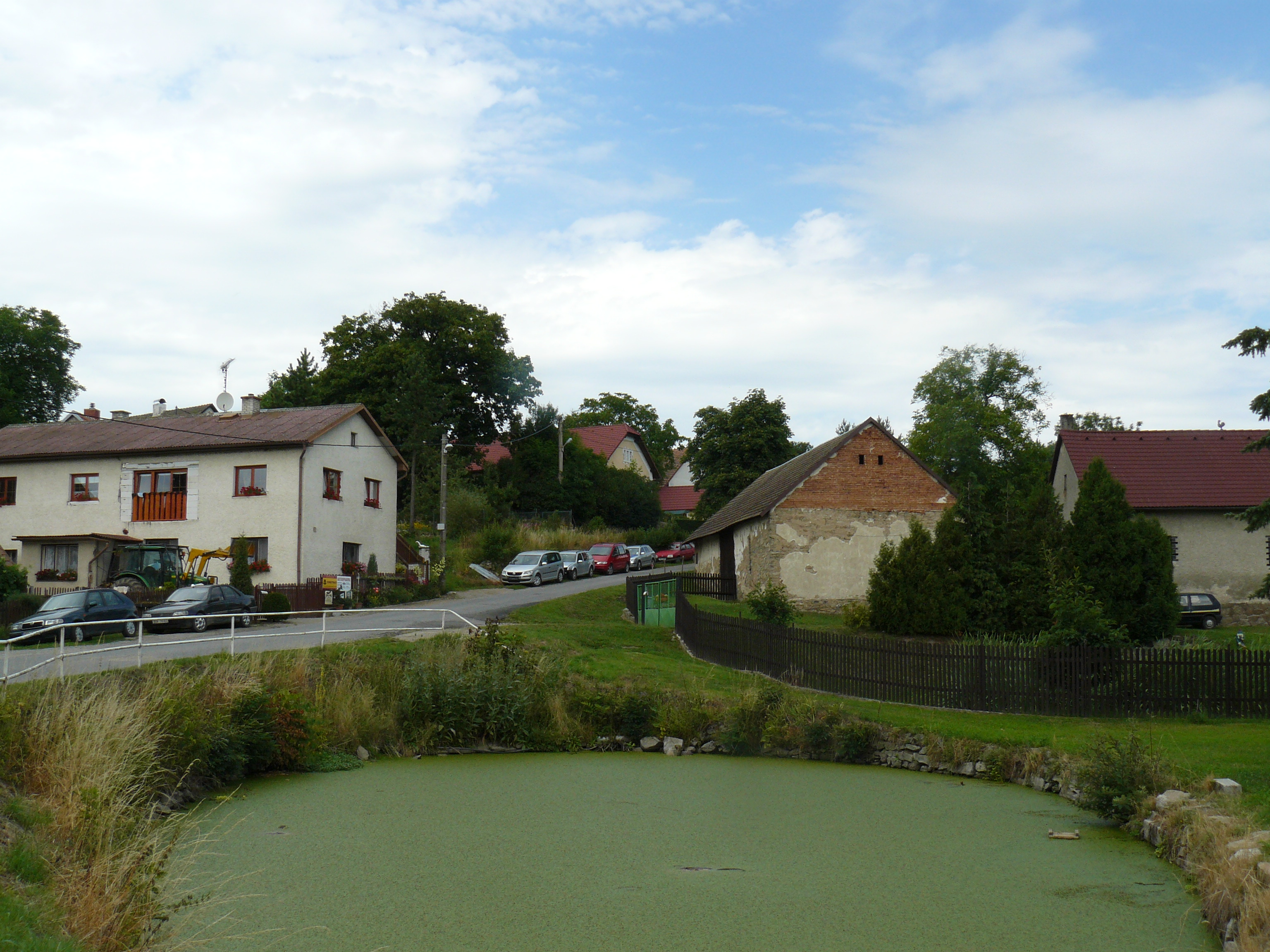 Zahradnice - village in Czech Republic